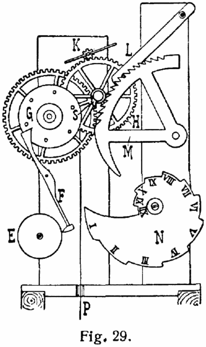 Diagram of rack striking mechanism from a striking clock. Labelled parts: (E) gong, (F) hammer, (G) hammer lift pins, (K) fan fly, (L) rack release lever, (M) rack, (N) snail, (P) drive weight cord, (S) rack lift pin.